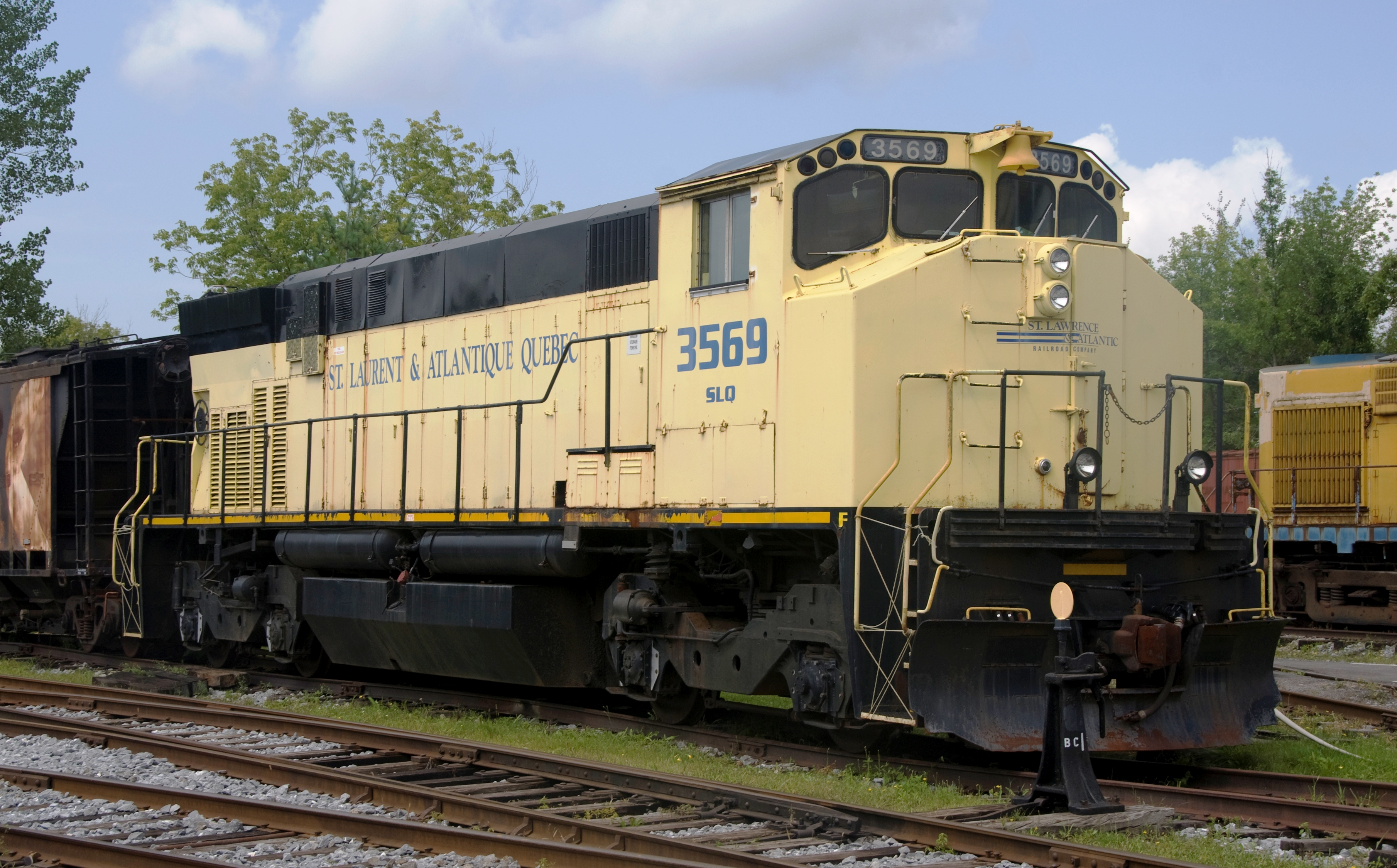 St. Lawrence and Atlantic Railroad Montreal Locomotive Works M420W at the Canadian Railway Museum